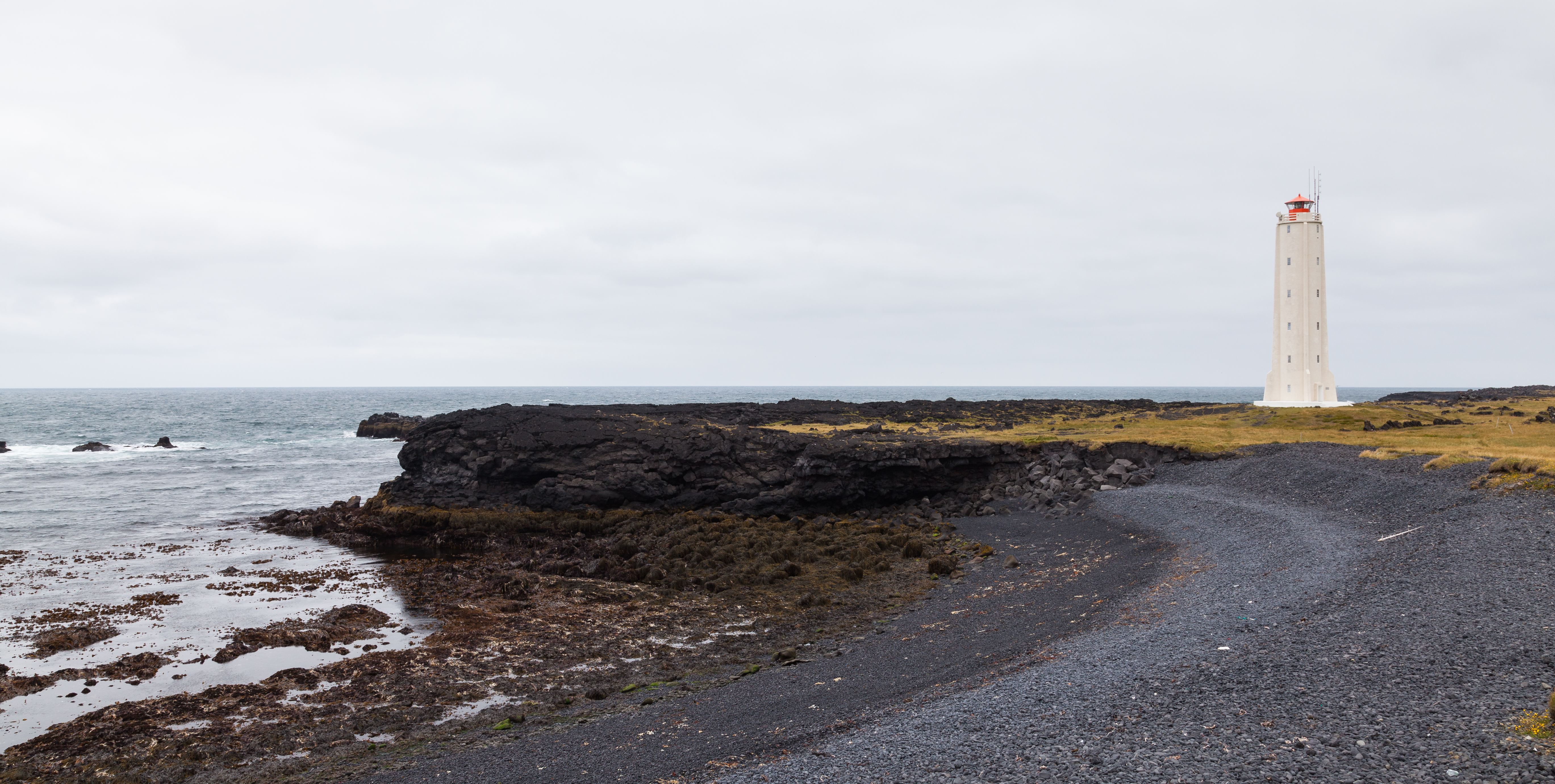 Malarrif lighthouse, Vesturland, Iceland